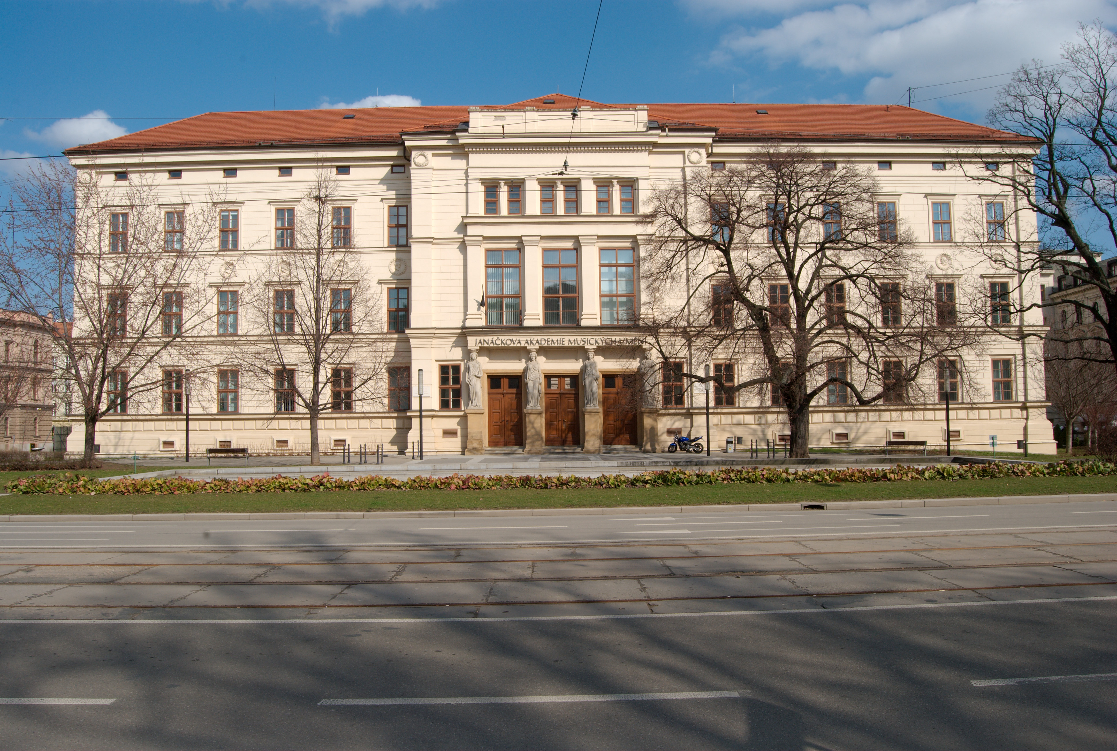 The Faculty of Music of the Janáček Academy of Music and Performing Arts in Brno